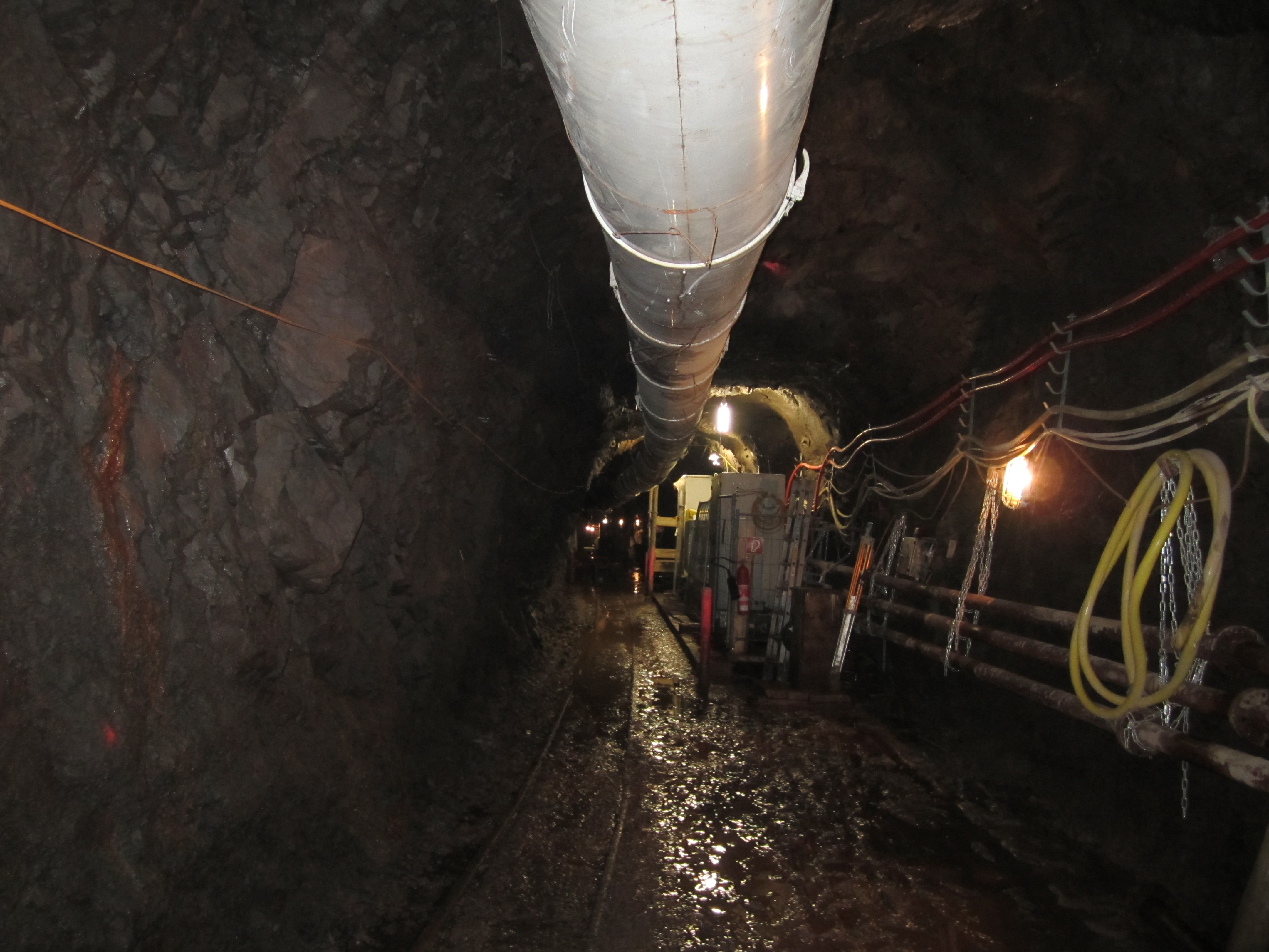 The so-called Wismutstolln in Freital, Germany. This adit (although it ain't an adit by definition) is intended to relief the Gittersee mine area from mine water. Begun in 2007, it ist proposed to be ready by 2011/12.